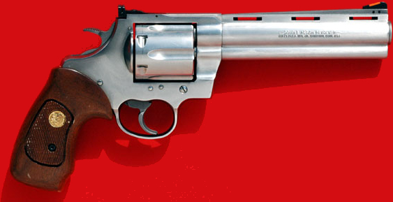 Photo © by Jeff Dean